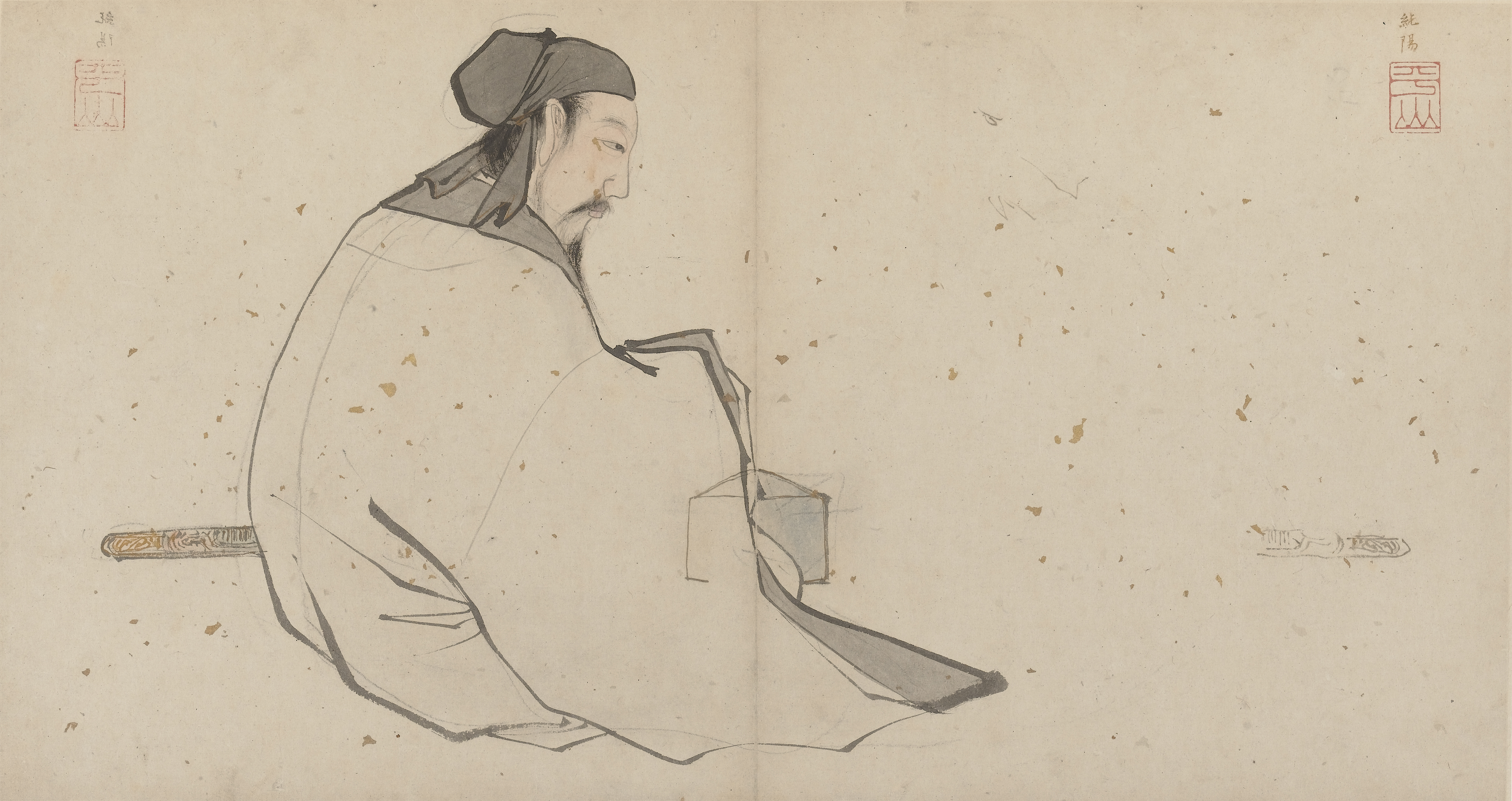 Depiction of the Daoist immortal Lü Chunyang, also known as Lü Dongbin